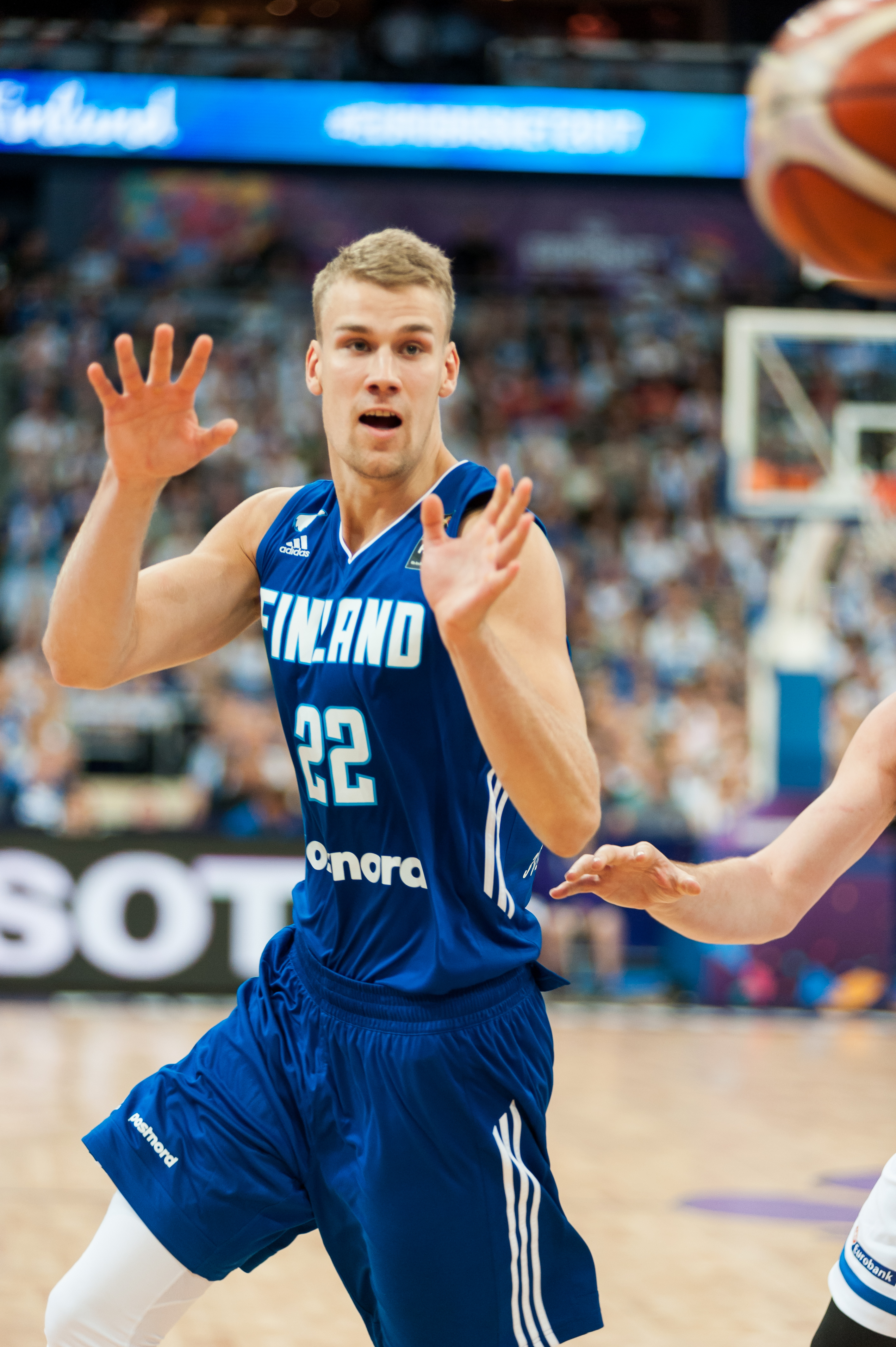 EuroBasket 2017 Group A game between Greece and Finland at Hartwall Arena in Helsinki, Finland.